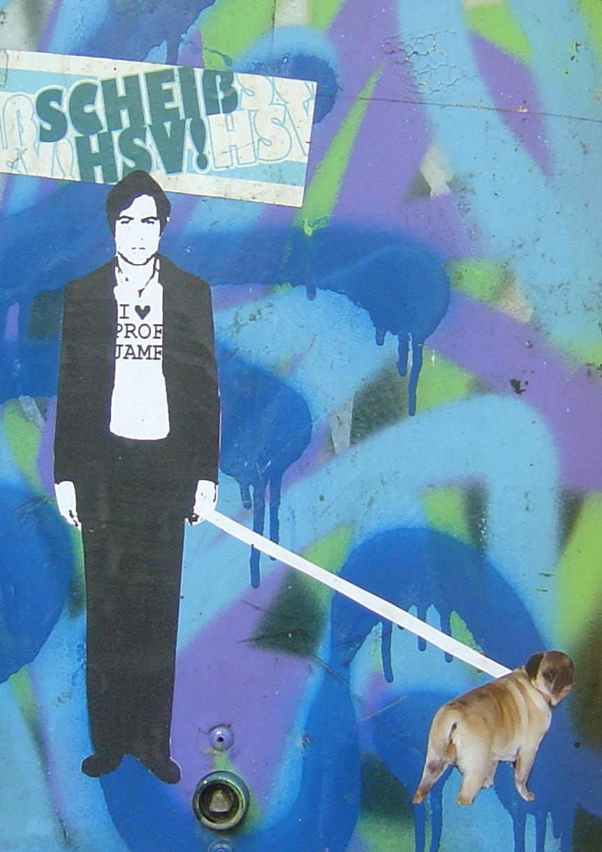 Paste-Up in Bremen-Walle